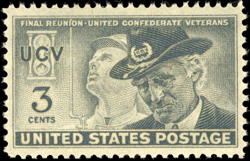 Image of commemorative stamp of the United Confederate Veterans